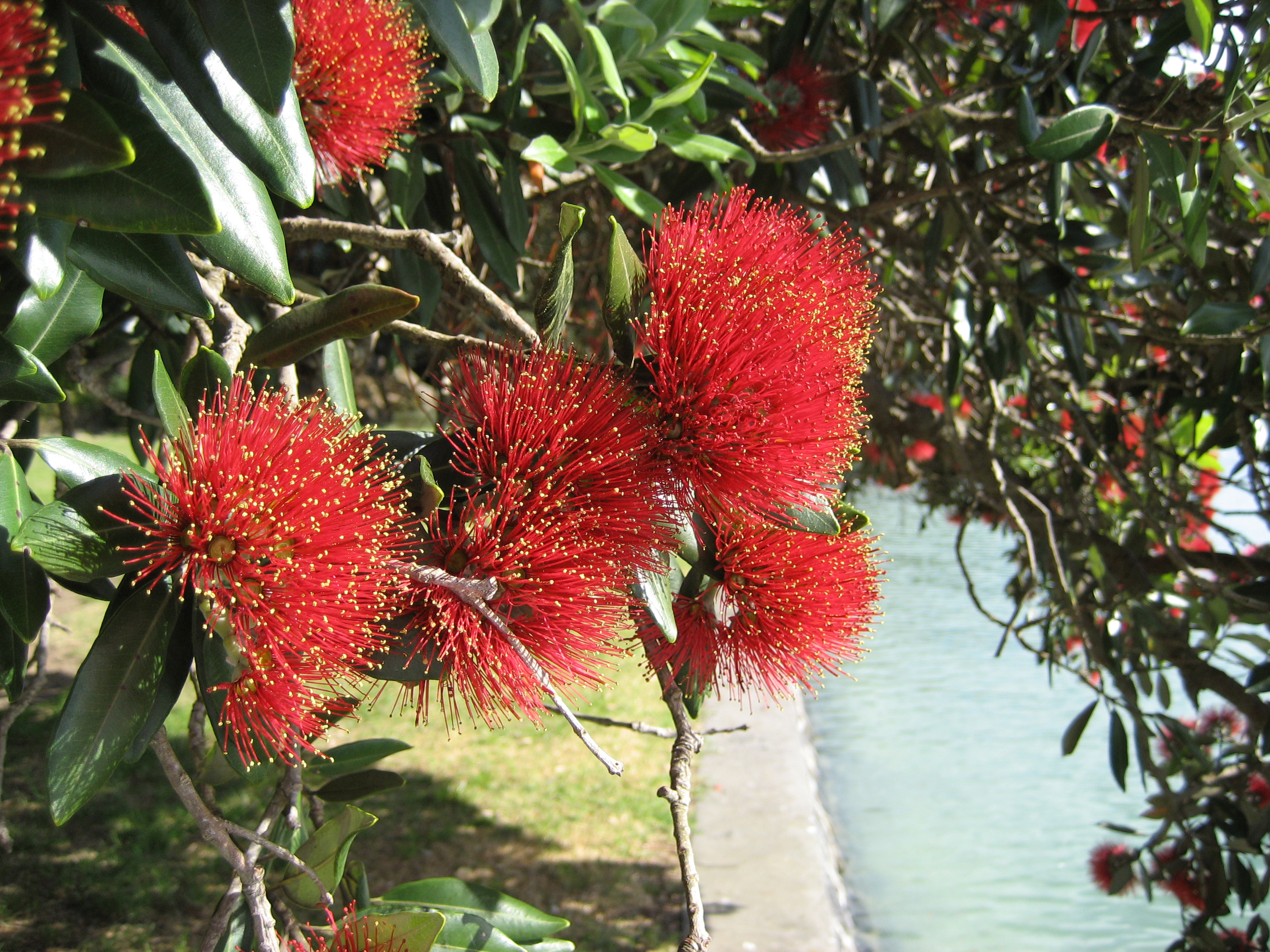 Pōhutukawa (Metrosideros excelsa), in flower, Manukau City, New Zealand